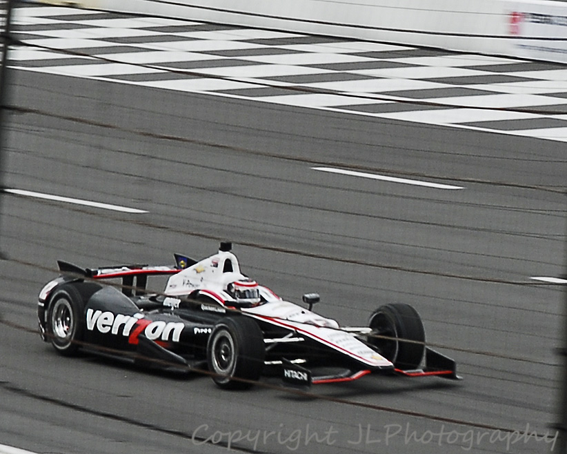 Indy Car Tire Test at Pocono Raceway